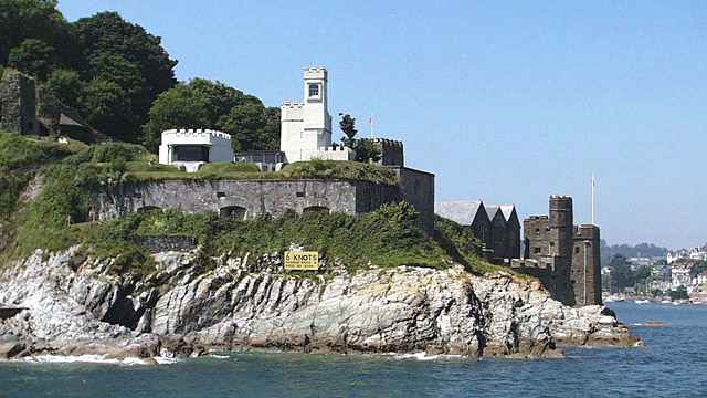 Dartmouth Castle, from the mouth of the River Dart Standing at the entrance to the Dart Estuary, Dartmouth Castle was built to protect Dartmouth harbour from foreign invaders. Original construction of a castle on this site began in 1388 to protect the homes of the town's merchants from seaward attack. By 1491 it had been further reinforced by the addition of a gun tower to mount heavy guns and was the first purpose-built artillery tower in England. The last gun emplacements to be built and manned were added during the Second World War. The Castle is now a tourist attraction run by English Heritage.